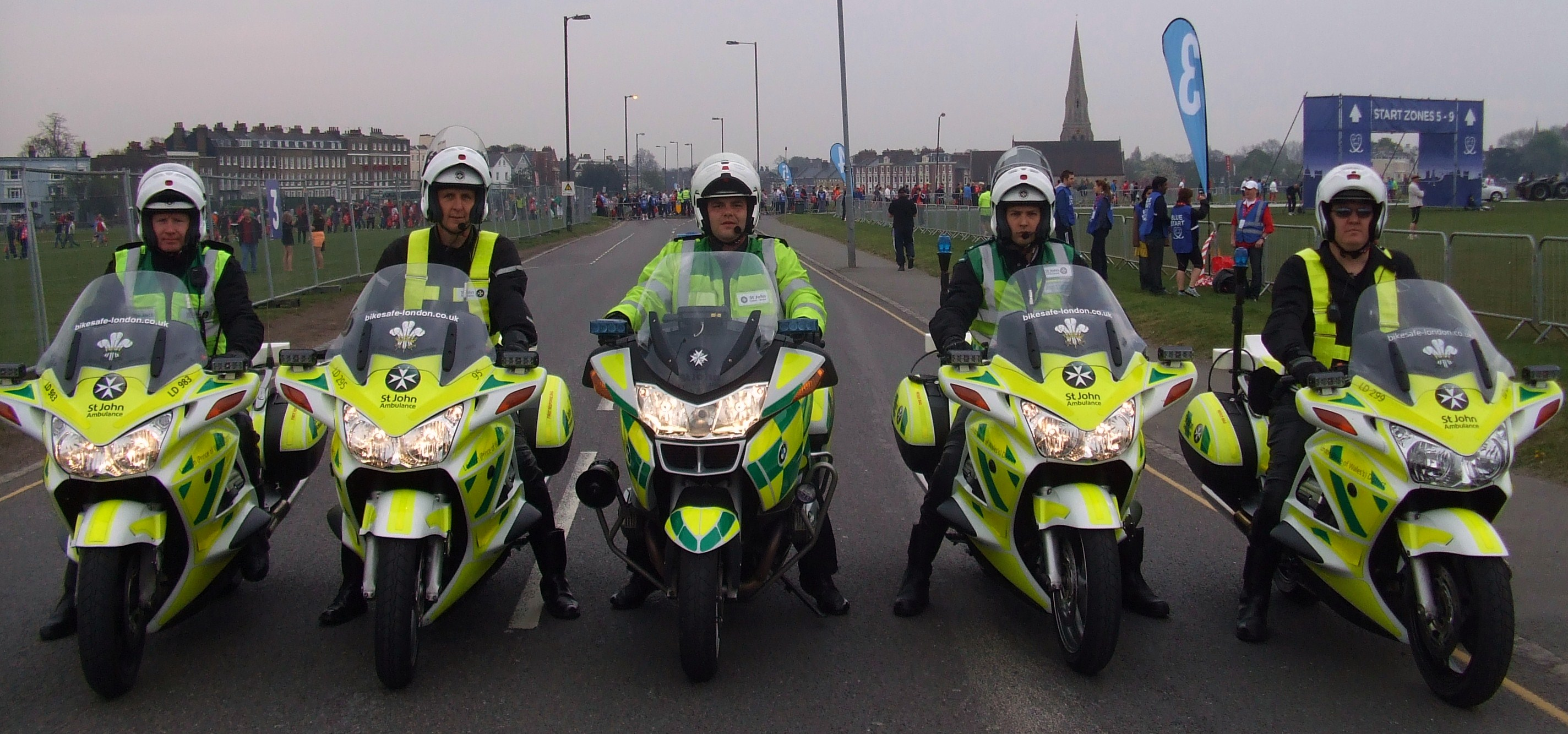 St John Ambulance (England and Wales) provide motorcycle cover at the Virgin London Marathon 2010